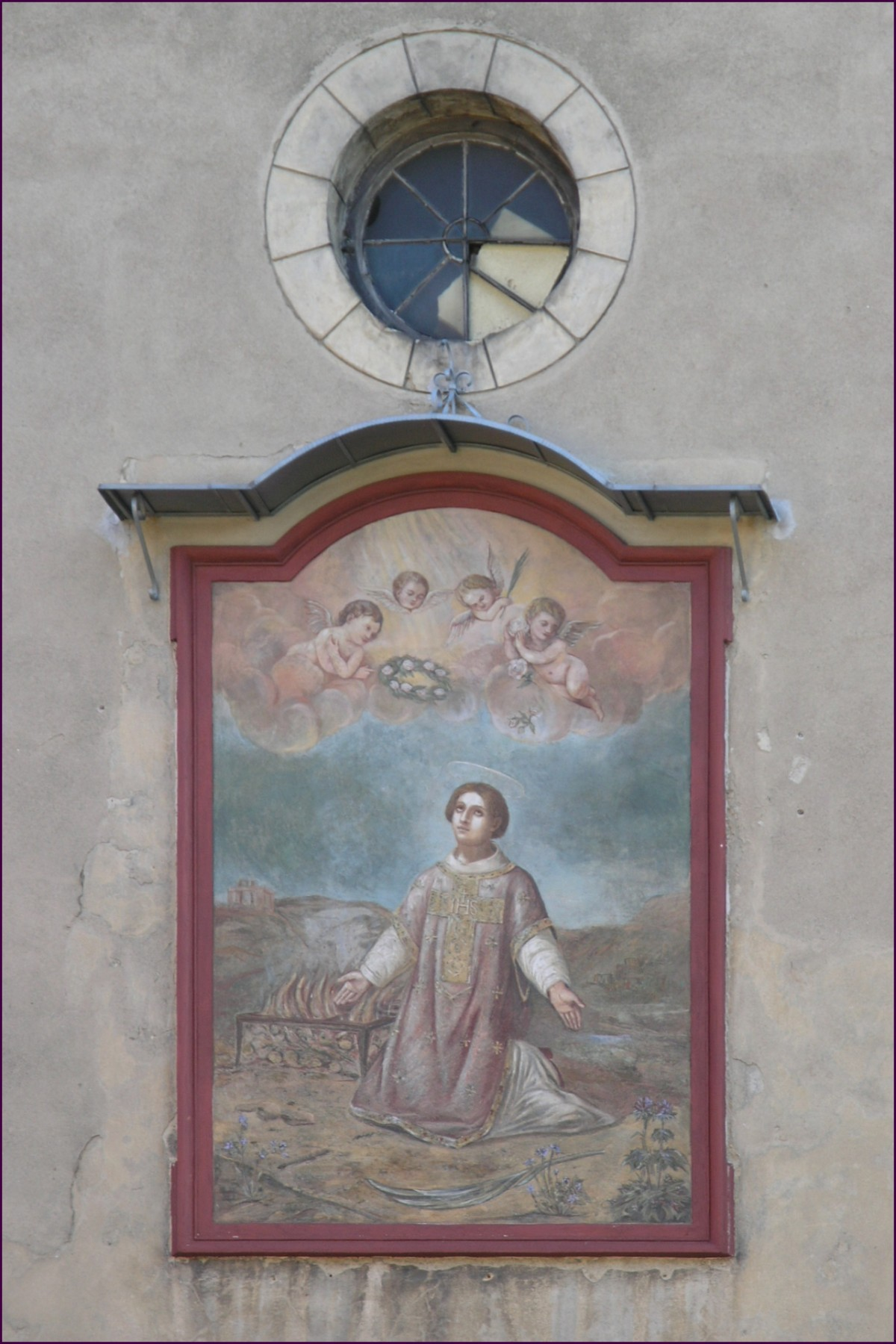 St Lawrence depicted on front of St Lawrence Church in Rumburk, Czech Republic